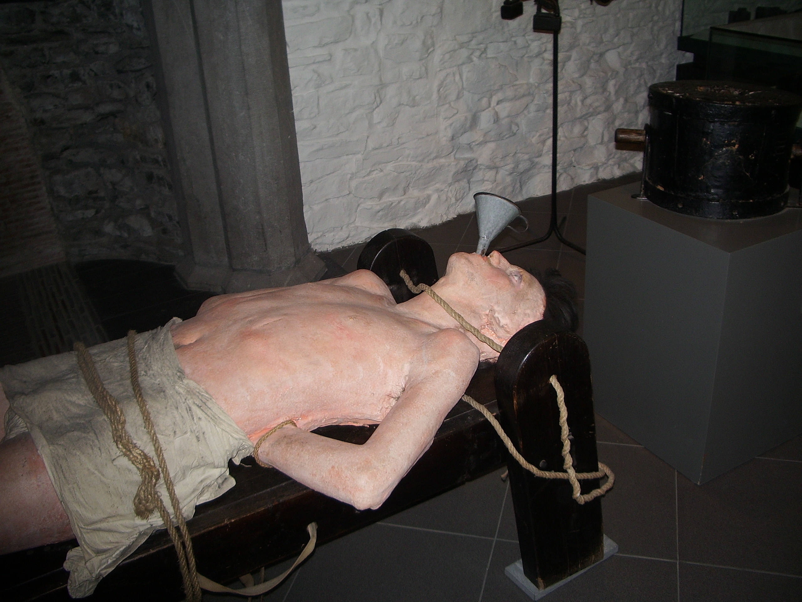 Water and rack in the torture museum in the Castle of the Counts, Ghent, Belgium: The victim is forced water and then stretched out.